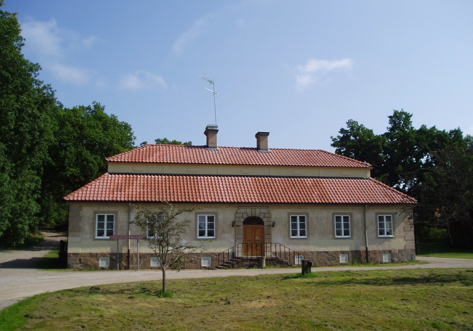 Sörmlandsgården, museum at Eskilstuna